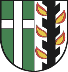 Coat of Arms of Pfaffschwende